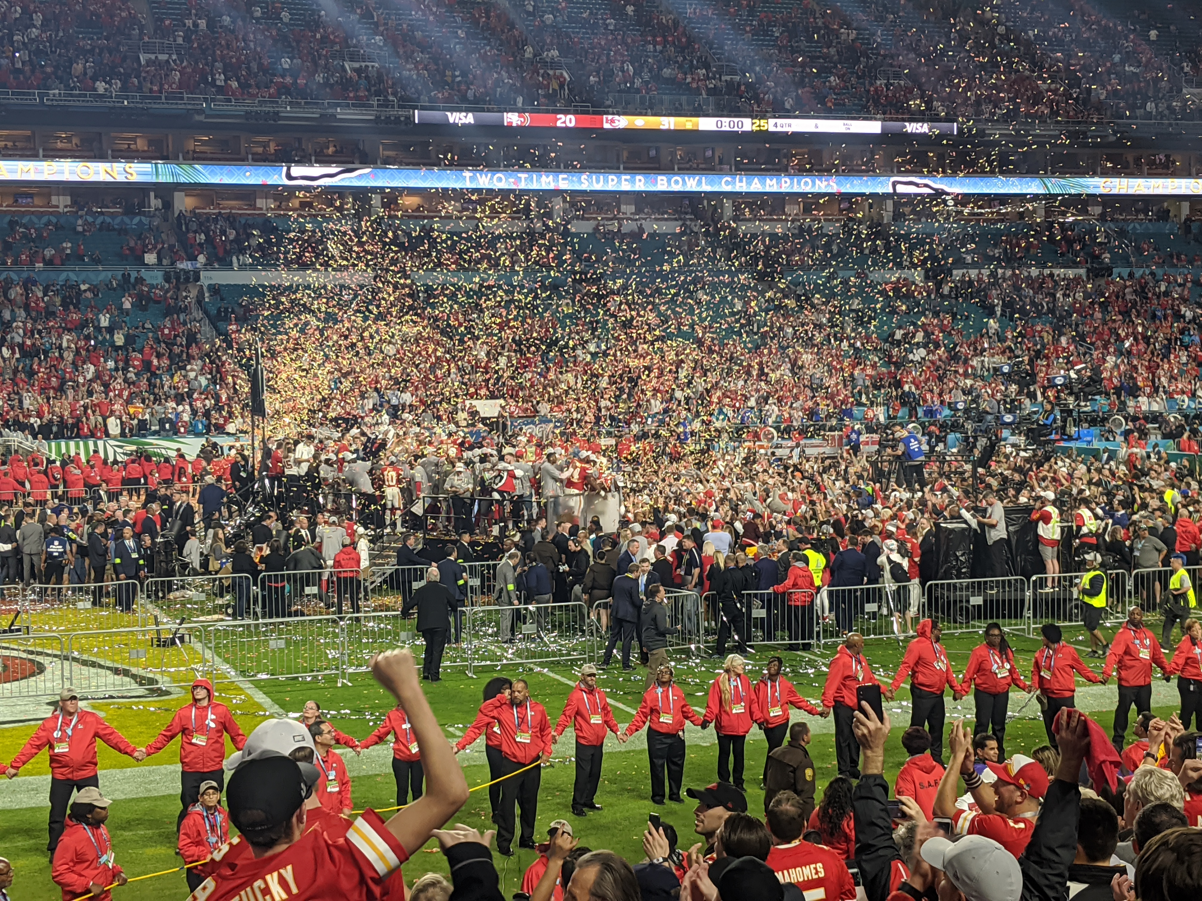 Post Game Celebration after the Chiefs won Super Bowl LIV